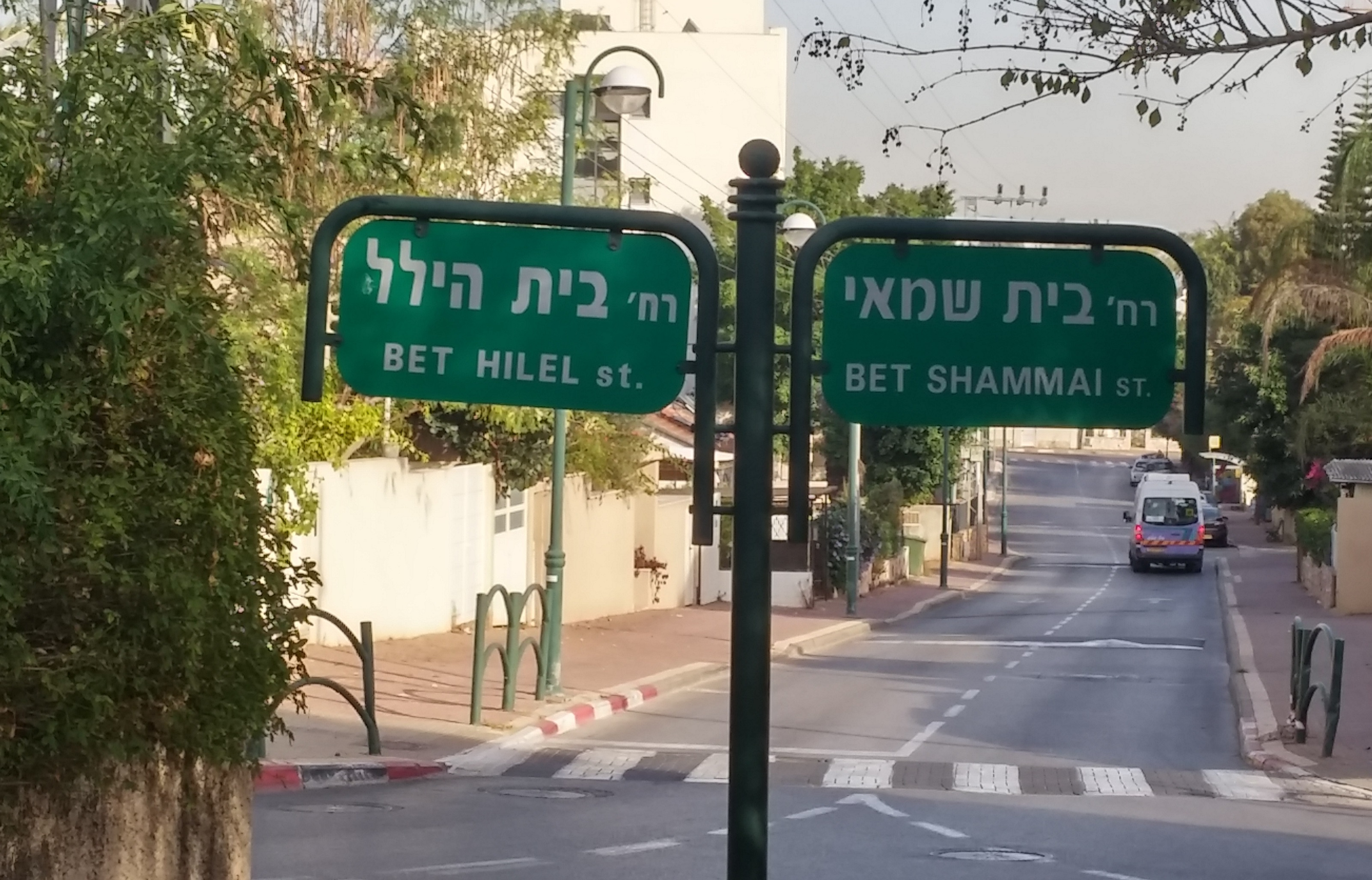 Beit Hilel street and Beit Shamay street, Ramat Hasharon